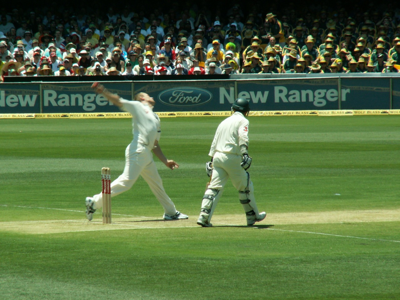 Andrew Flintoff bowling.